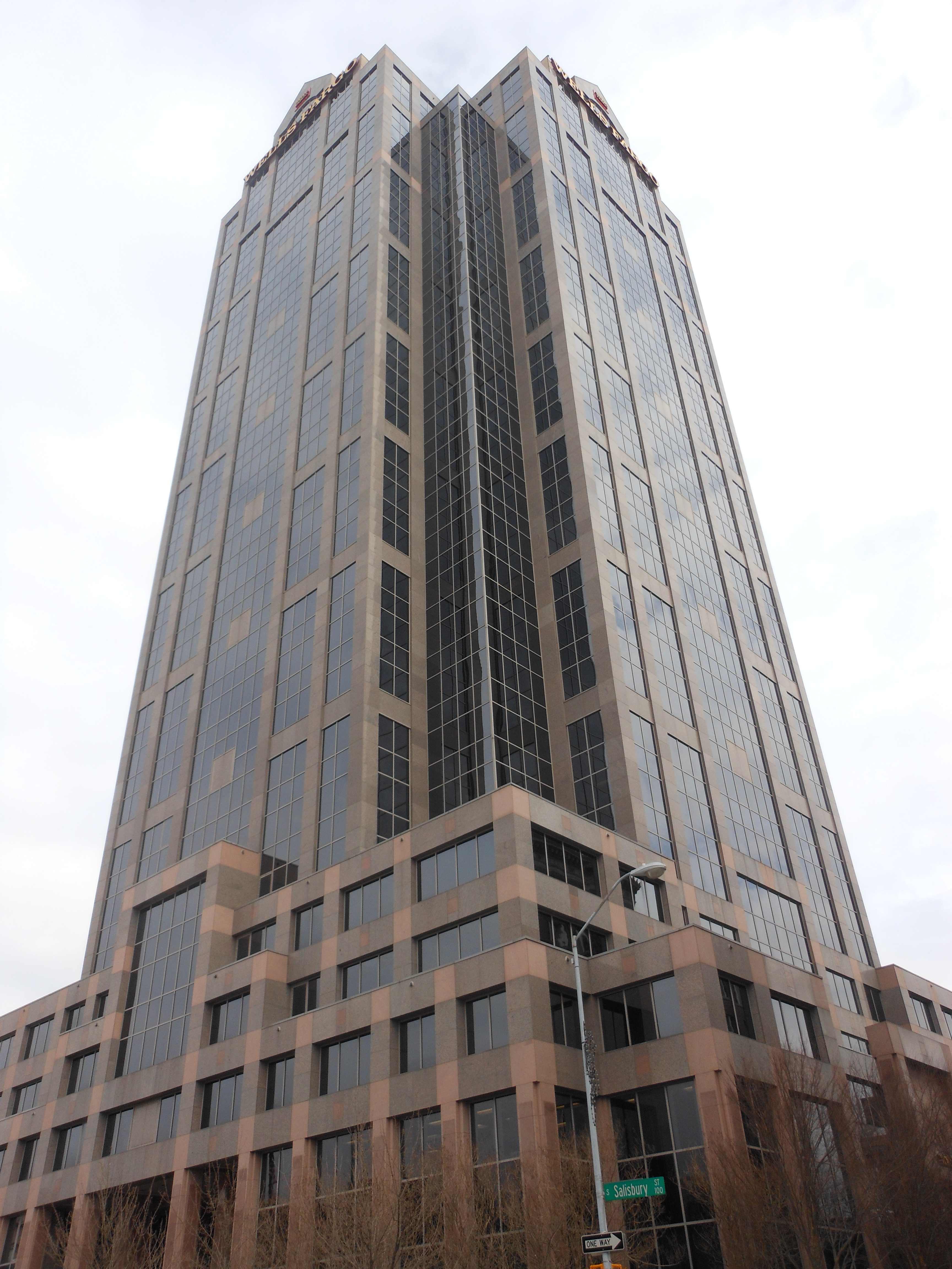 Wells Fargo Building in Raleigh, NC.